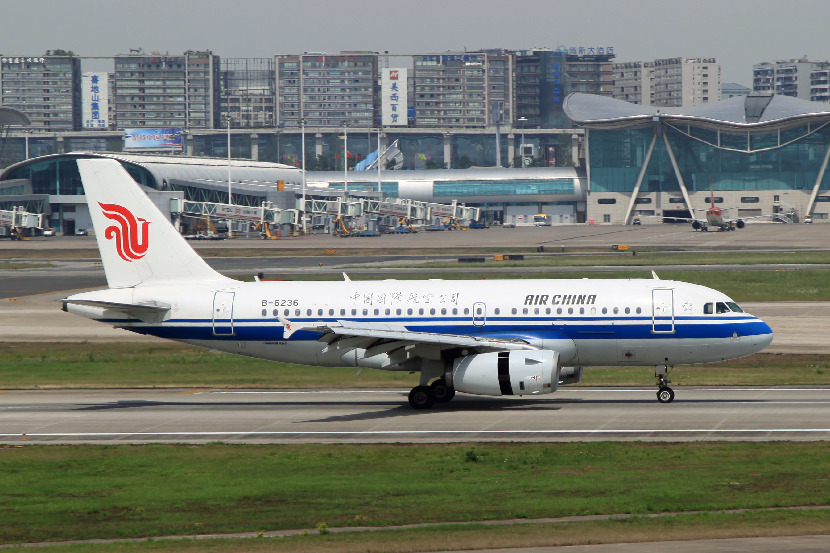 Air China Airbus A319-131 B-6236 @ Chongqing Jiangbei International Airport